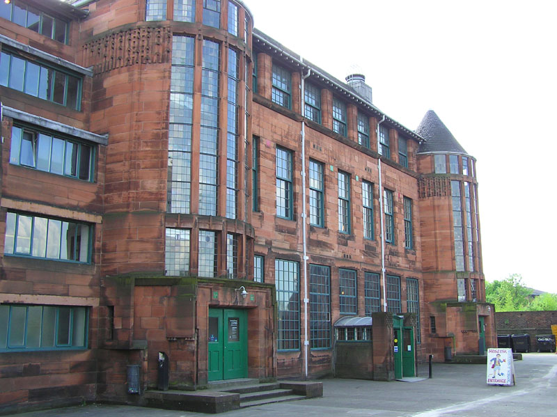 The north façade of Charles Rennie Mackintosh's Scotland Street School in Glasgow, Scotland.